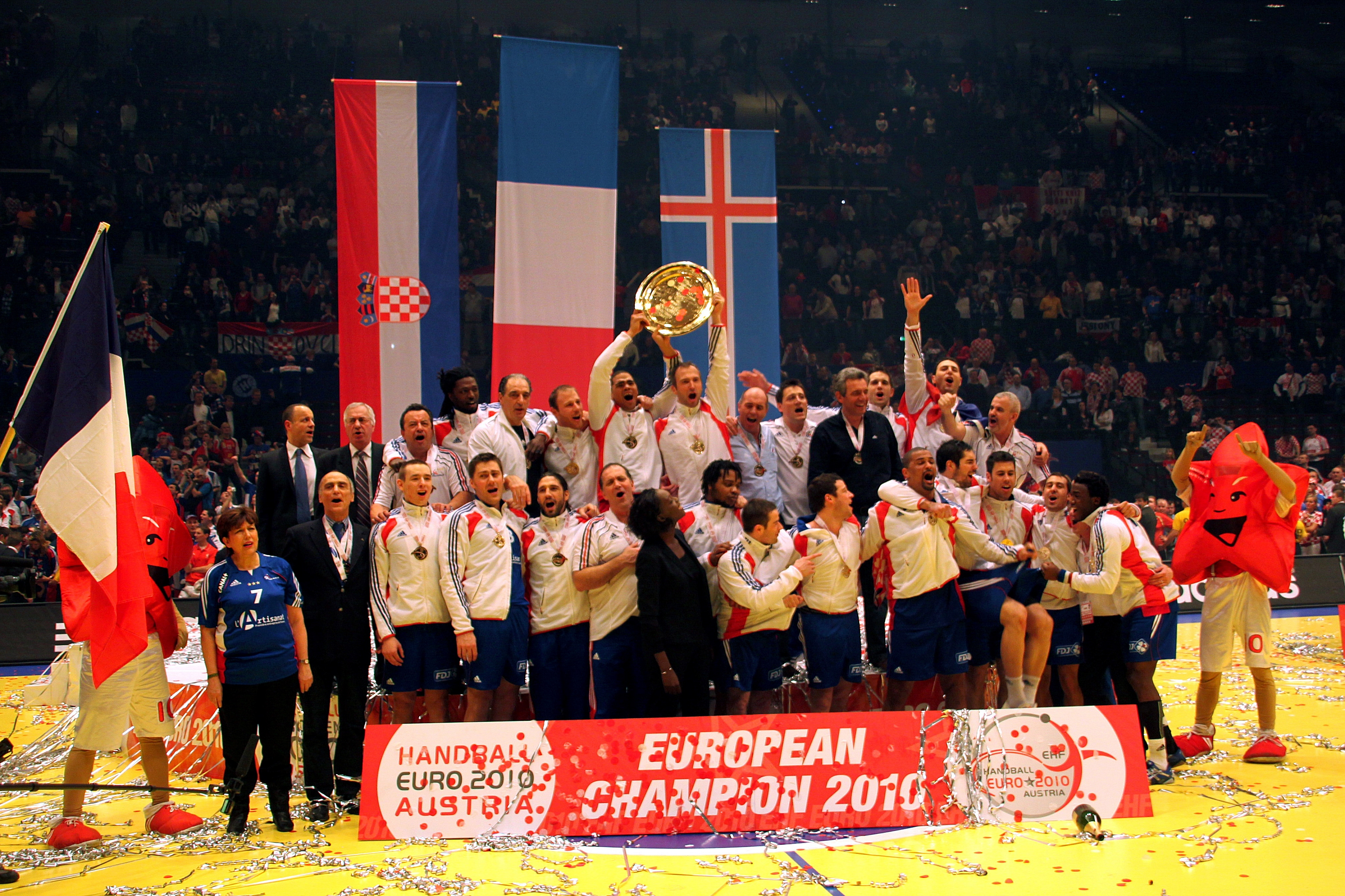 The players of the France national handball team are jubilant about the first place in the 2010 European Men's Handball Championship